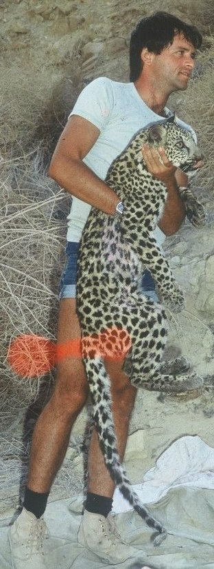 Leopard in the Judean desert photographed by